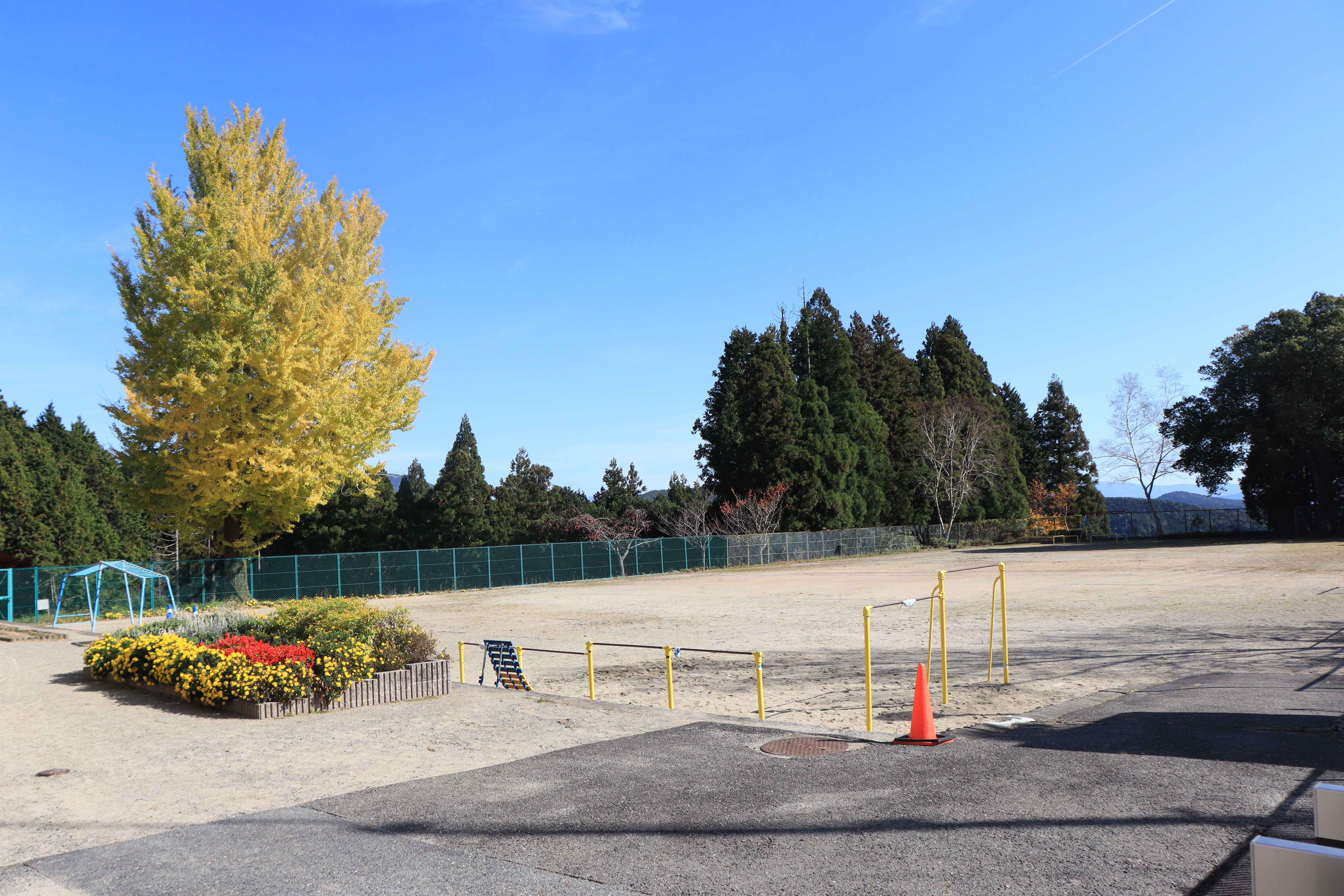 Ground and Ginkgo biloba of Yaotsu Town Shiomi Elementary school in Yaotsu, Gifu Prefecture, Japan.